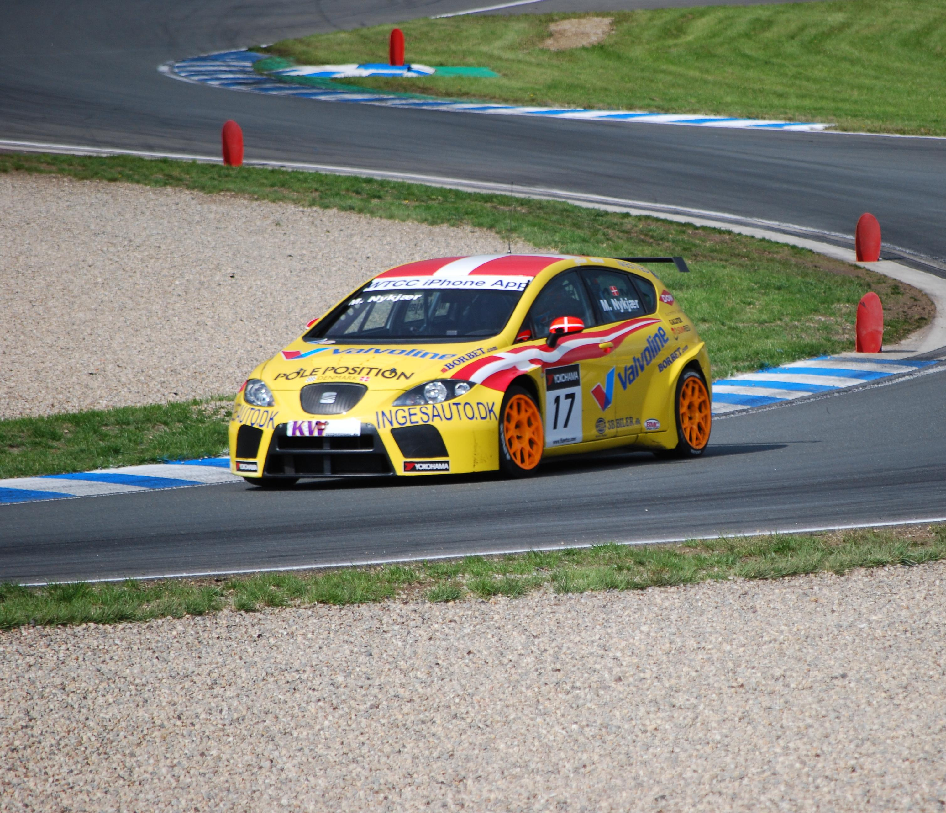 Michel Nykjær, Oschersleben Race 2 2010